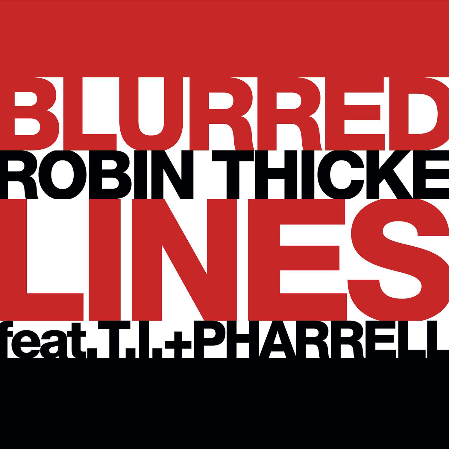 Single cover for Blurred Lines by Robin Thicke featuring T.I. and Pharrell.